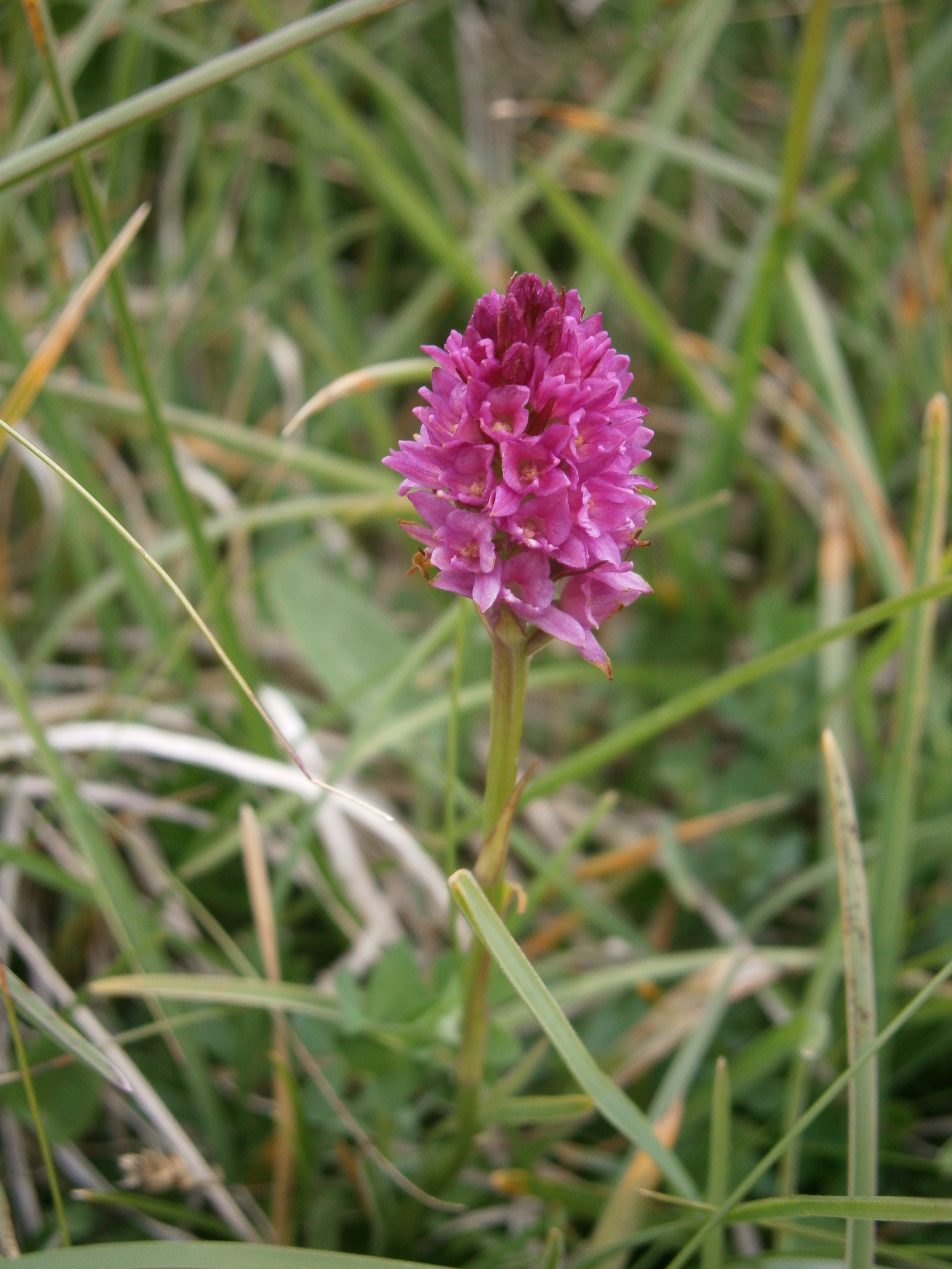 Gymnadenia ×heufleri